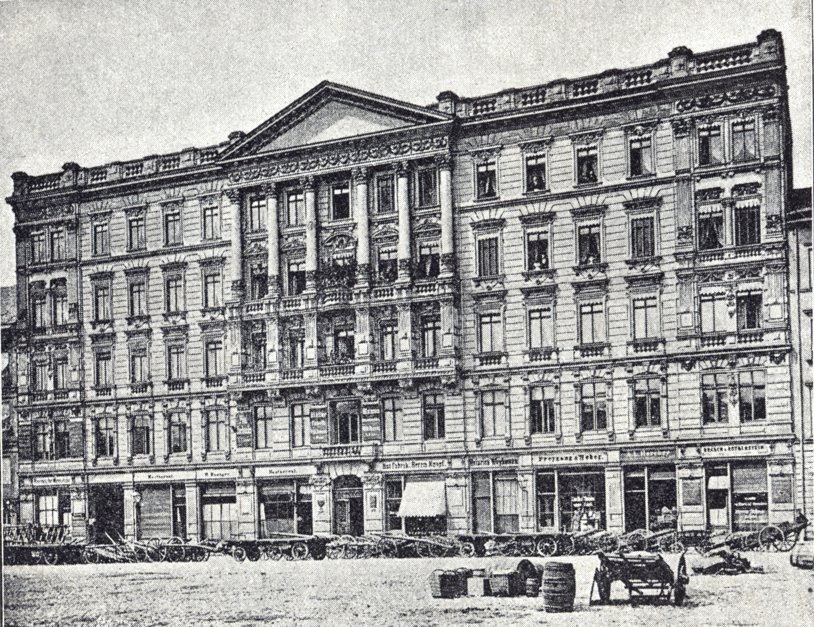 Moses Lazarus, Packhofstraße 11-13, Leipzig